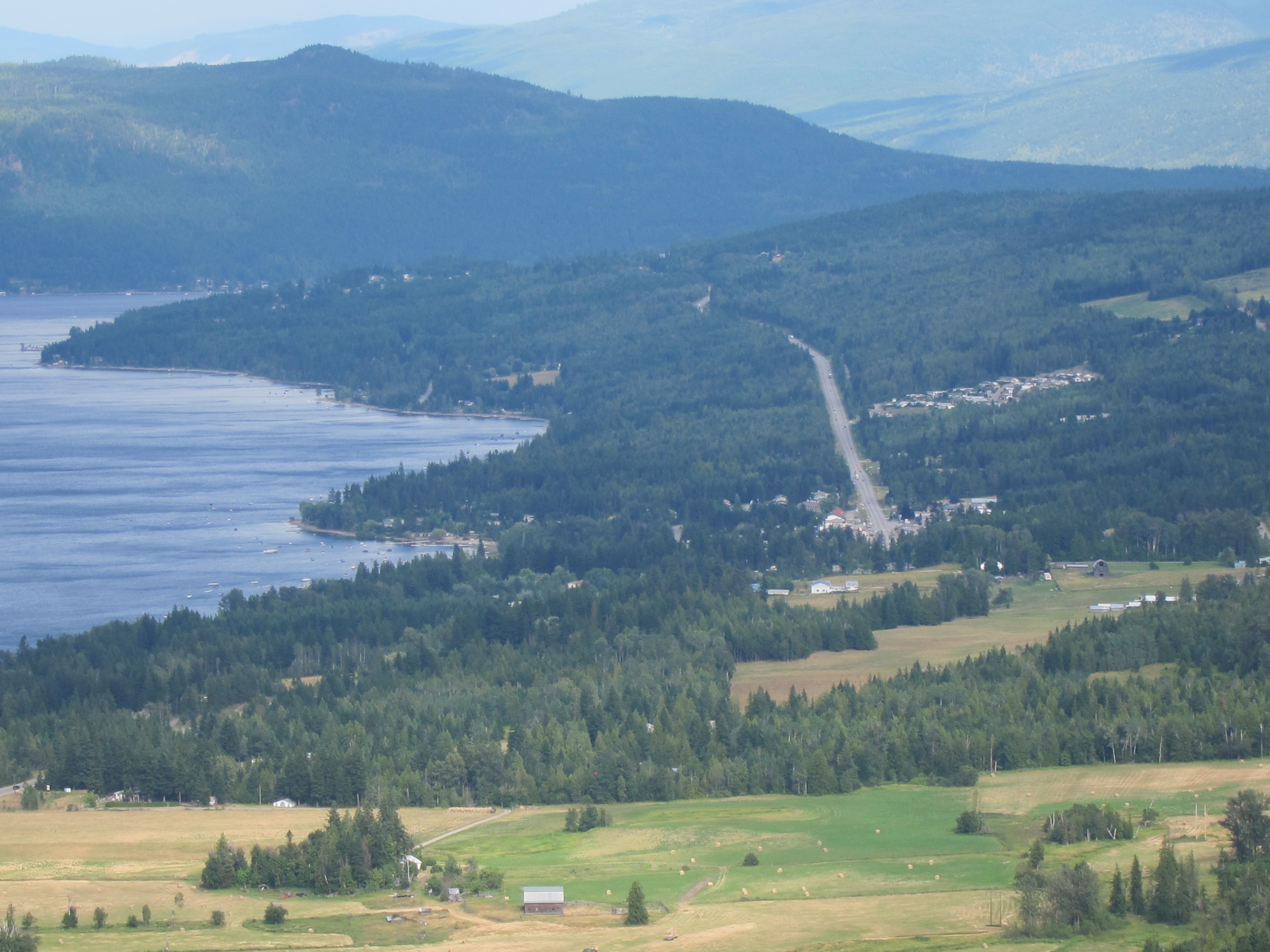 View of the Trans Canada Highway as it goes through the town of Sorrento, British Columbia, on Shuswap Lake